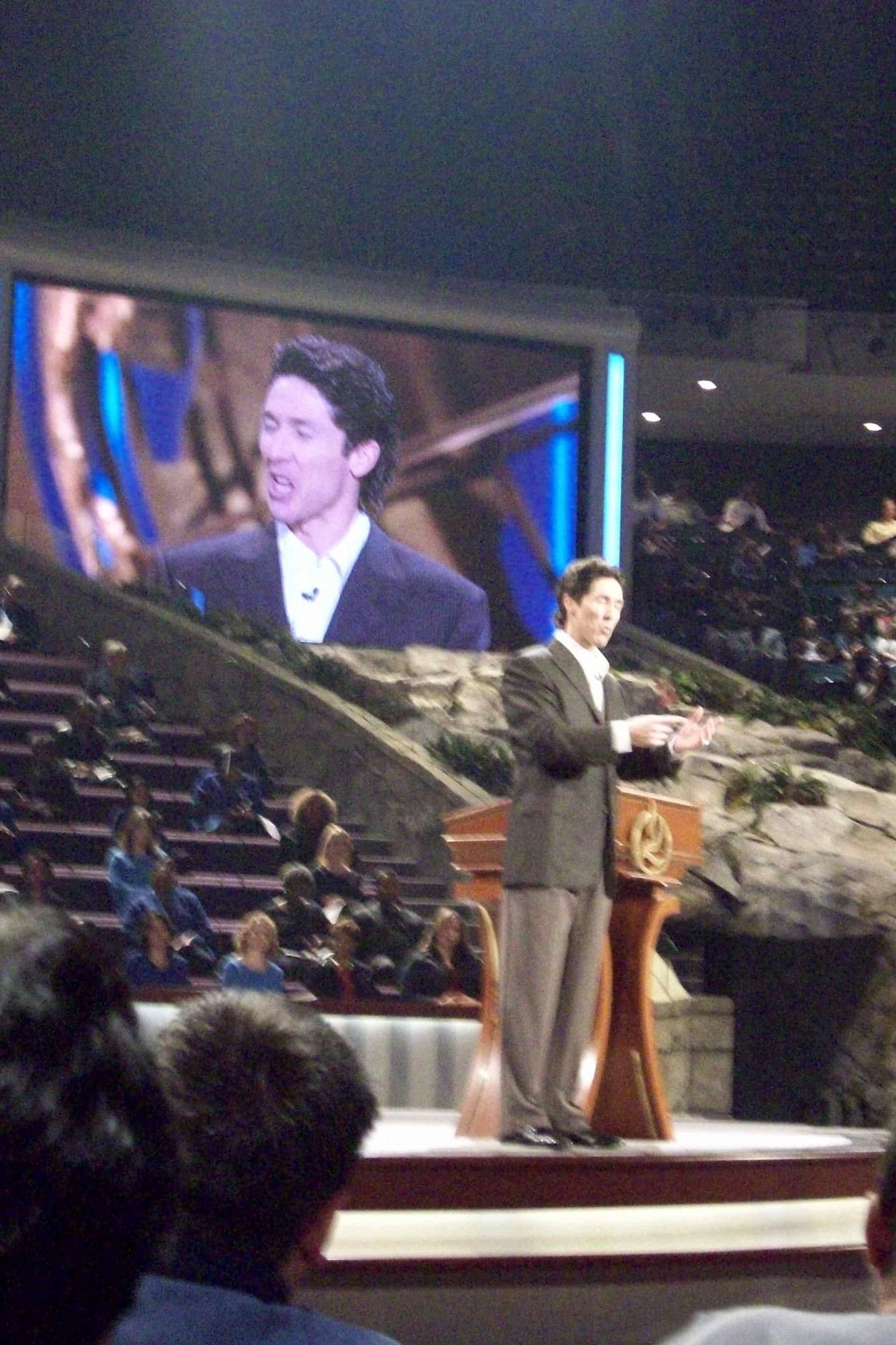 Joel Osteen at Lakewood Church, Houston, Texas